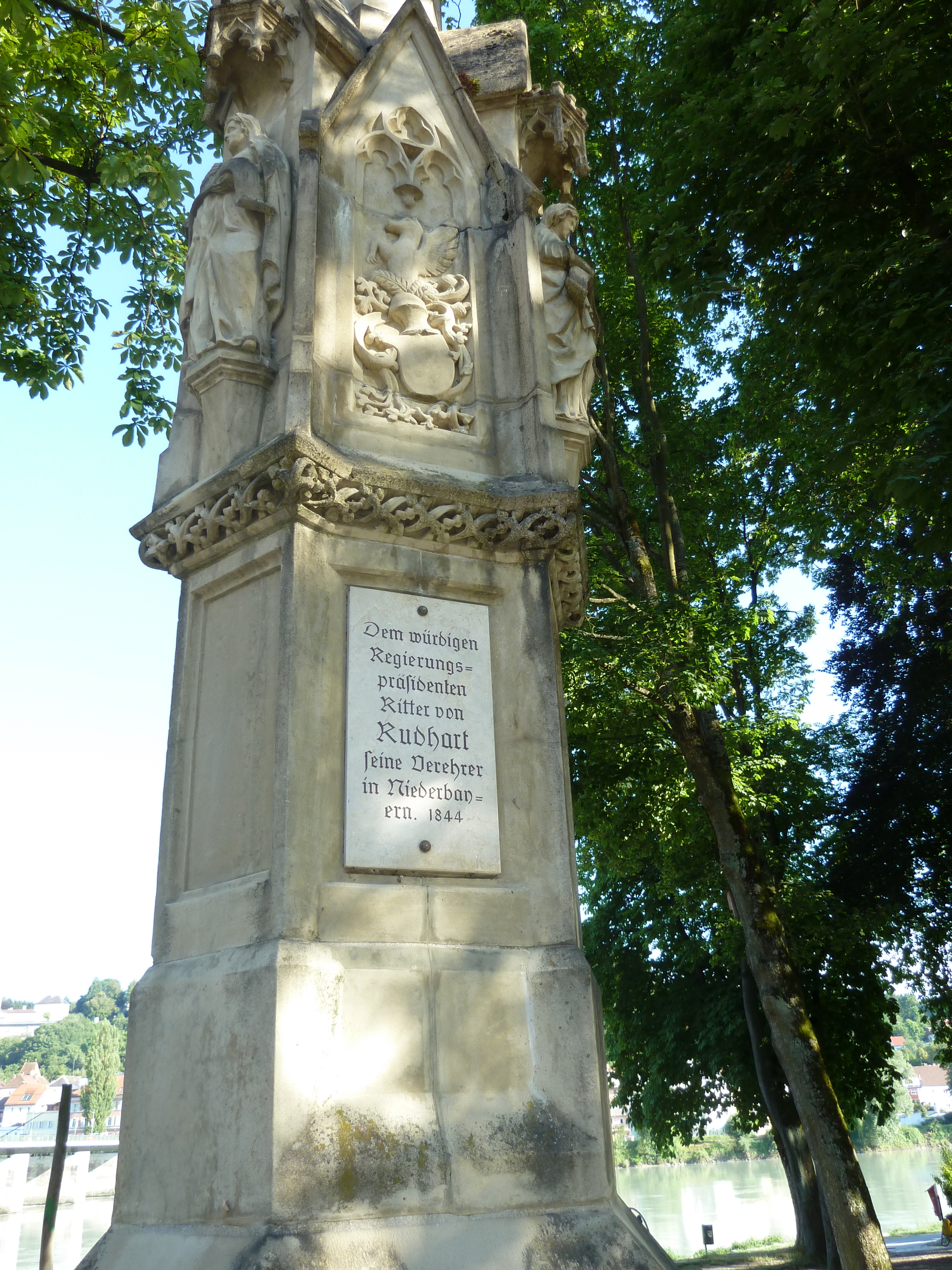 Memorial for Ignaz von Rudhart in Passau